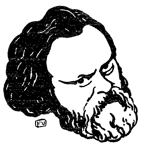 Russian political writer Alexander Herzen (1812-1870) by Félix Valloton (1865-1925)